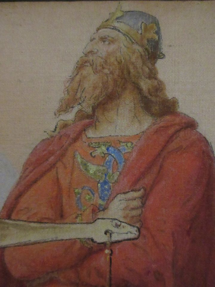 The Danish, Norwegian and eventually English king Sweyn Forkbeard painted by the Danish artist Lorenz Frølich in the 1880s. This is a very small part of a 37 meter long frieze made for Frederiksborg Castle in Hillerød, Denmark. Here Sweyn Forkbeard is depicted overseeing the English paying danegeld to Sweyn and his men. Portrait of Danish Sweyn Forkbeard (cropped) - from the Lorenz Frølich frieze at Frederiksborg Castle